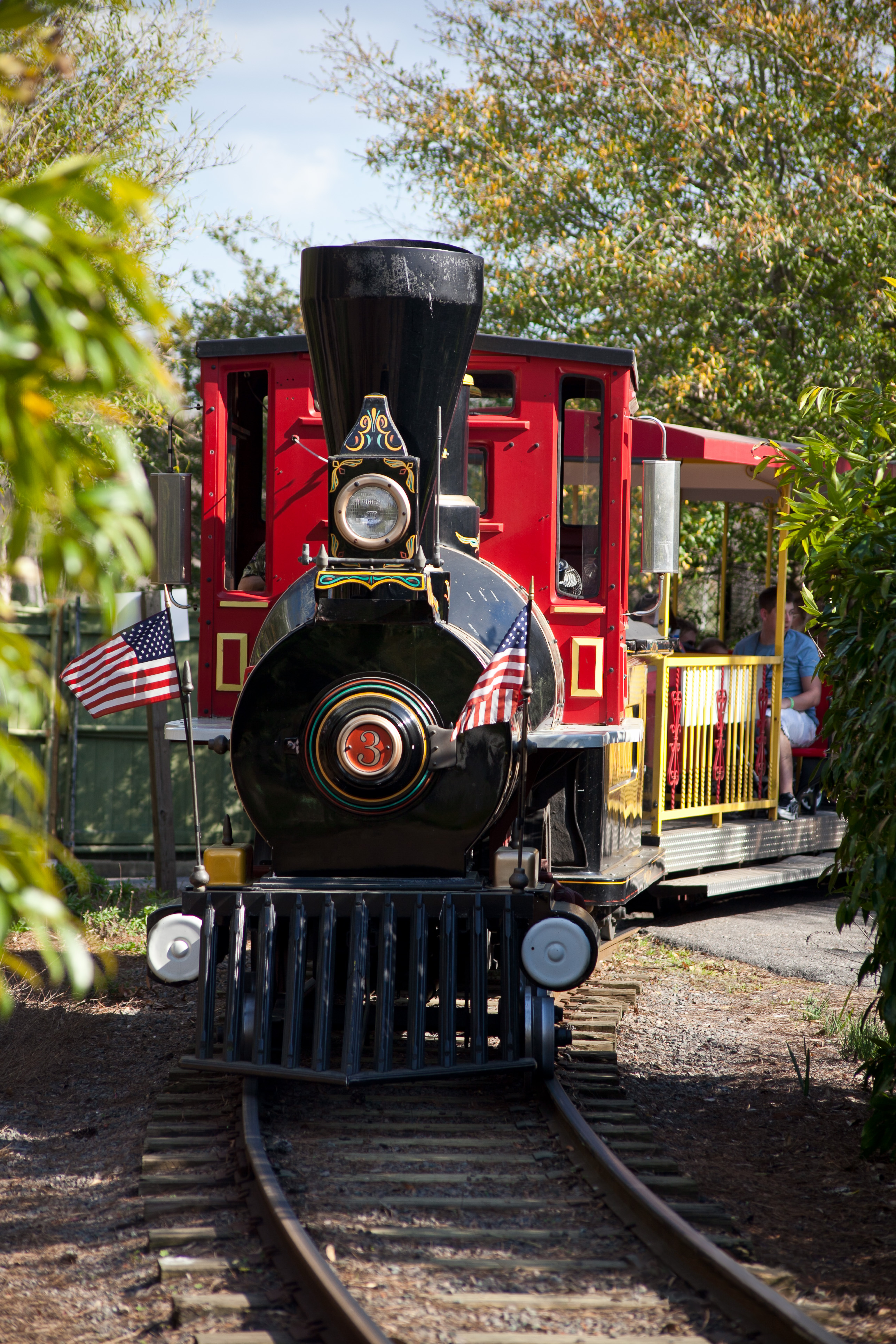 A train at Jacksonville Zoo, Florida, USA -train.